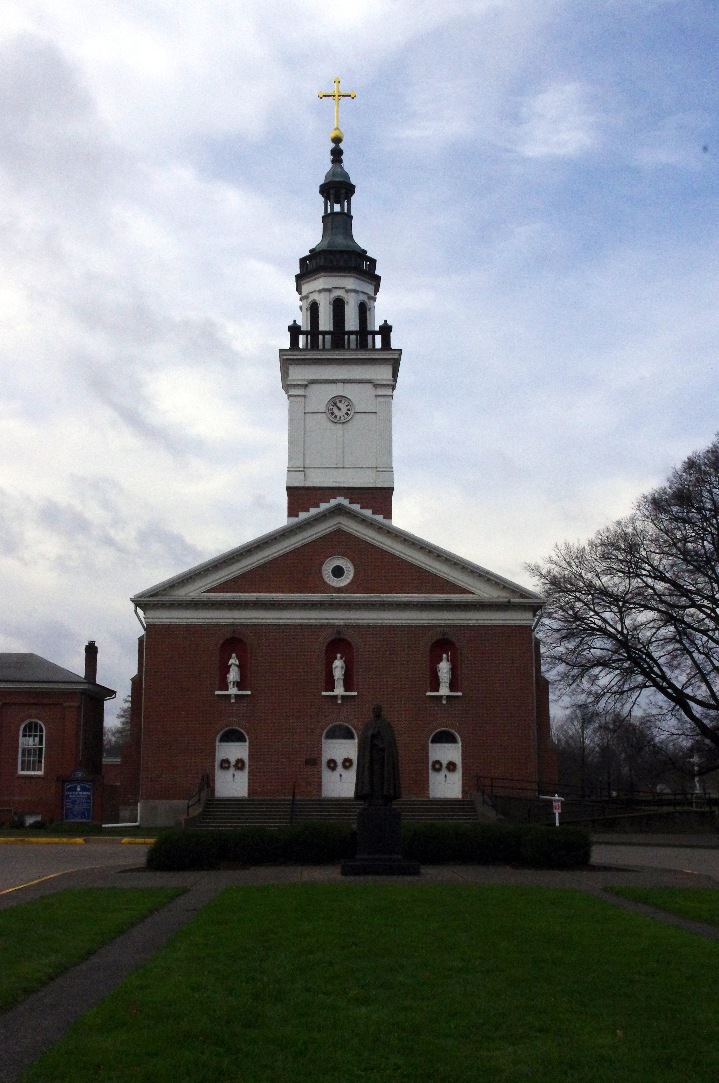 St. Francis Xavier Basilica (Vincennes, IN) - facade